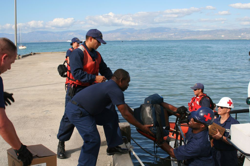 Rescue workers deliver supplies to Haiti